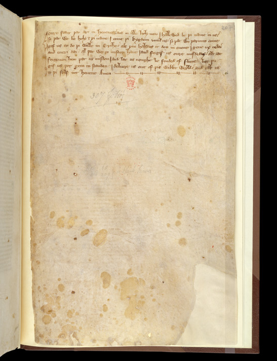 A Pre-Wyclif Version Of The Lord's Prayer In Middle English, In A Volume Of Works By St. Augustine And Others